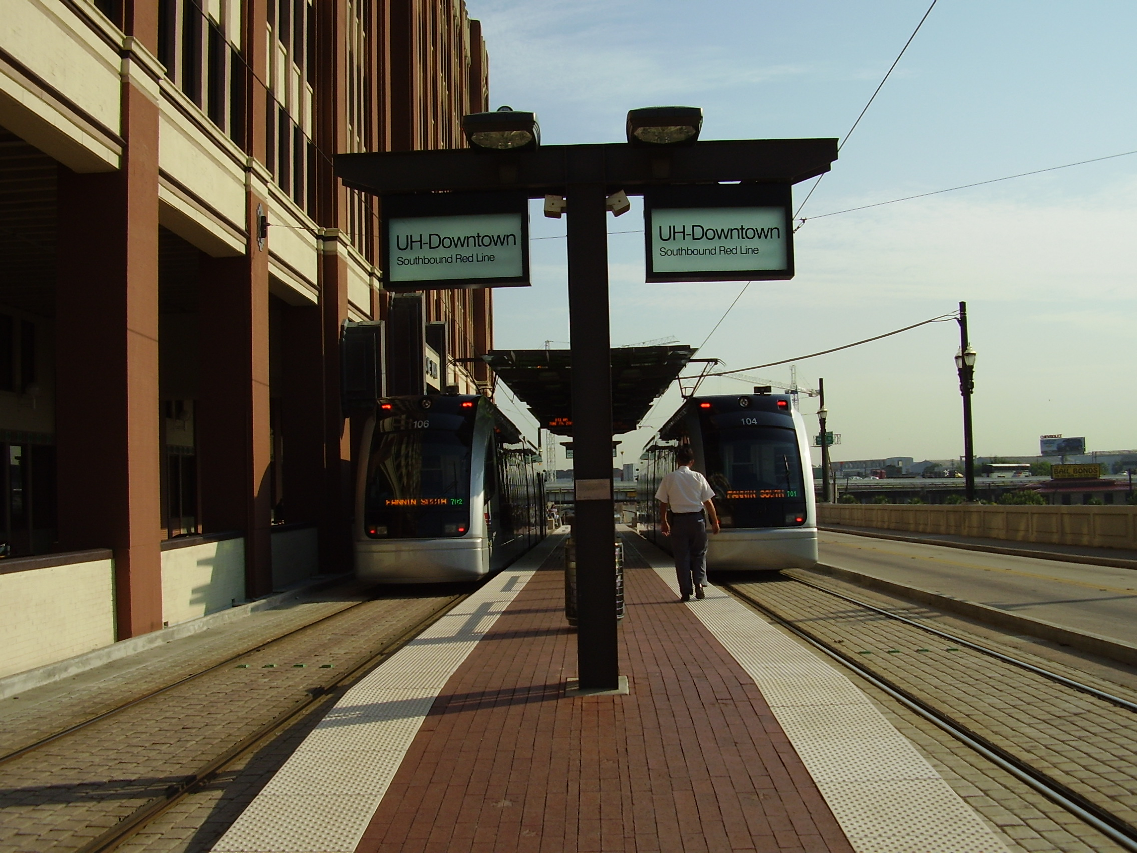 Taken by WhisperToMe